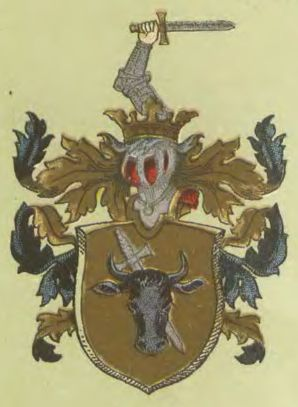 Pomian coat of arms by Zbigniew Leszczyc, 1908